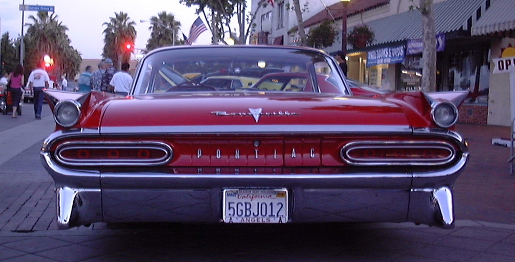 1959 Pontiac Bonneville taillights and fins.